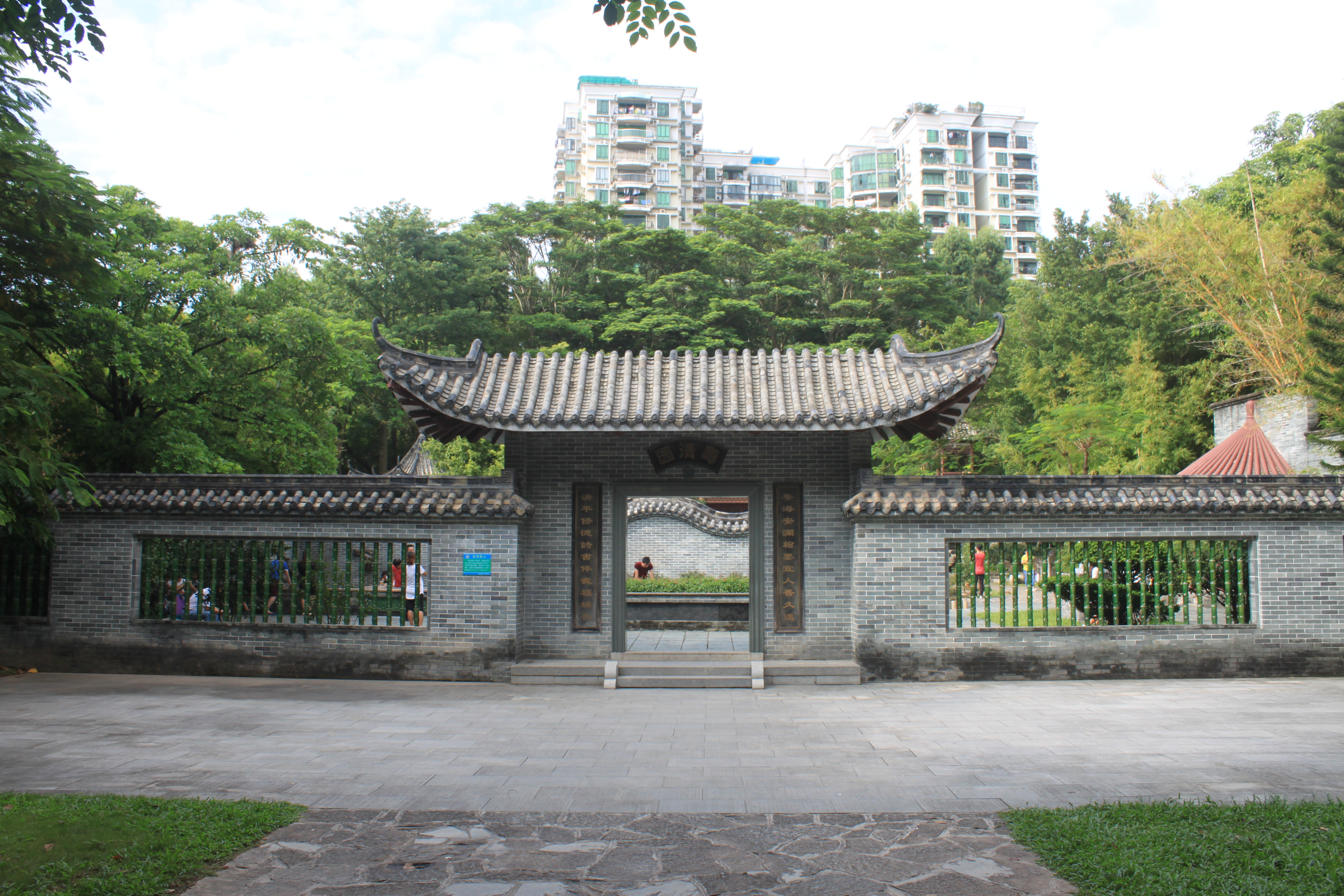 Yueqing Garden of Shenzhen International Garden and Flower Expo Park.